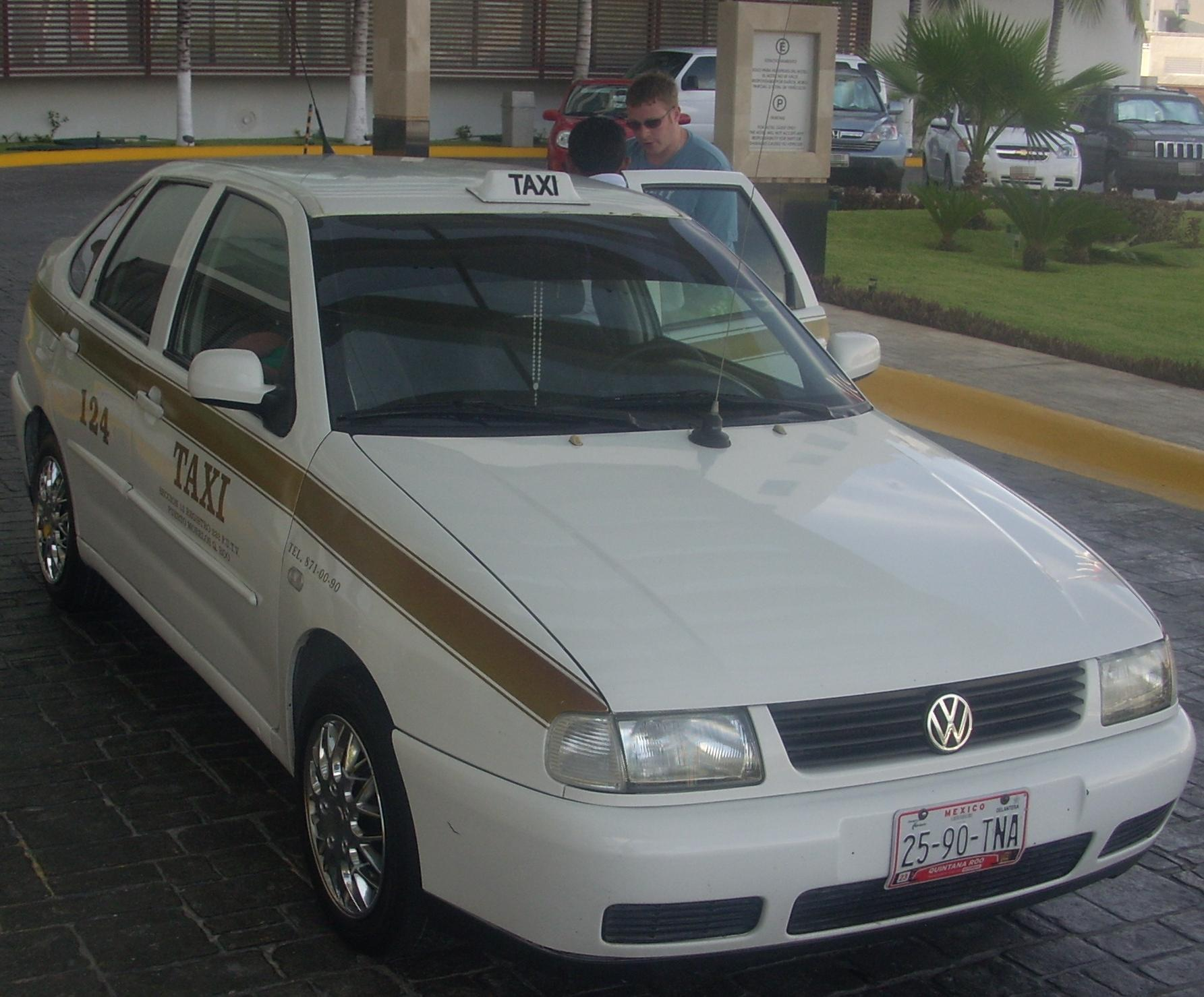 Volkswagen Derby photographed in Cancun, Quintana Roo, Mexico.